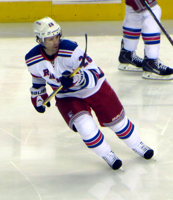 New York Rangers forward Martin St. Louis prior to a National Hockey League game against the Calgary Flames.